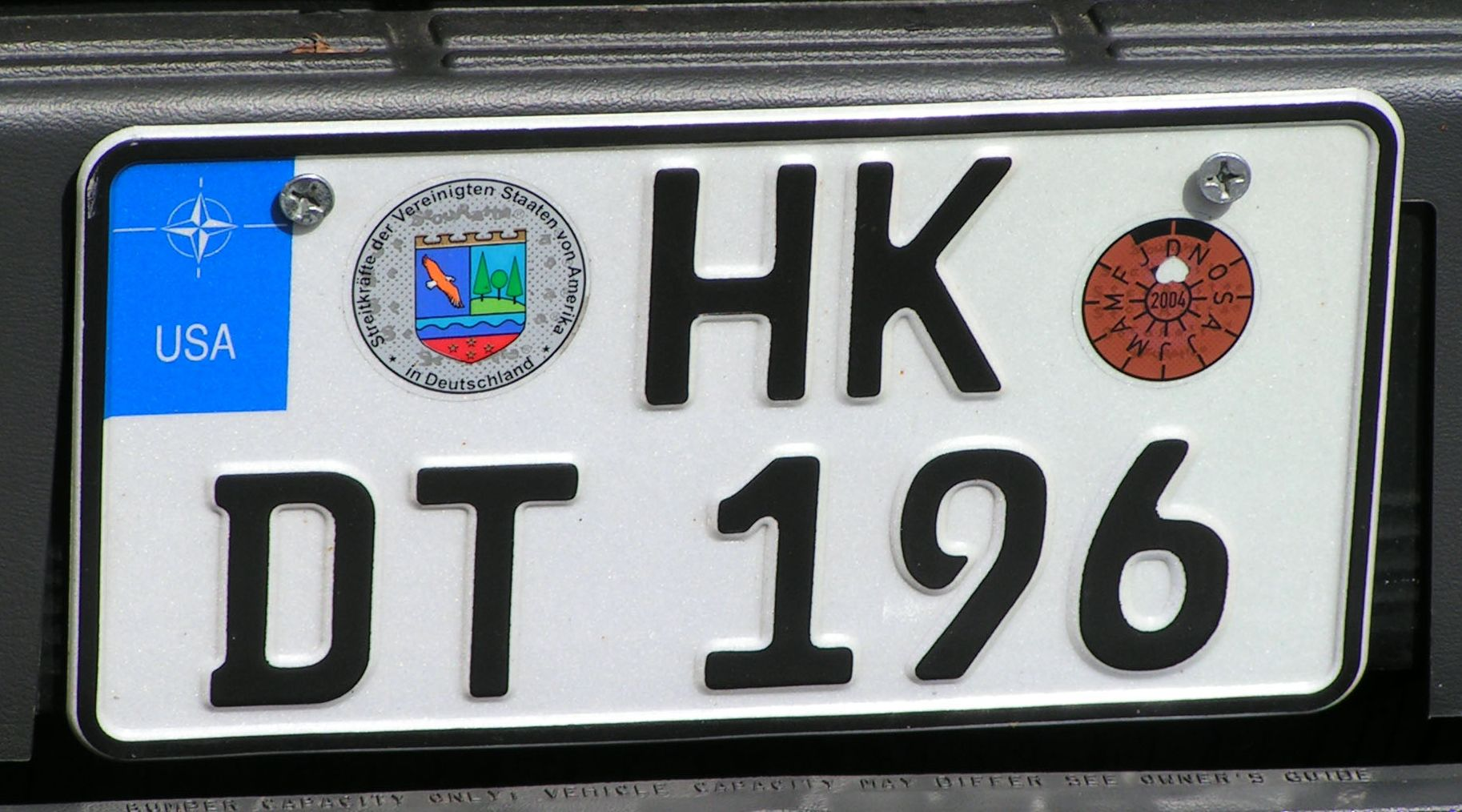 License plate of US military forces in Germany.